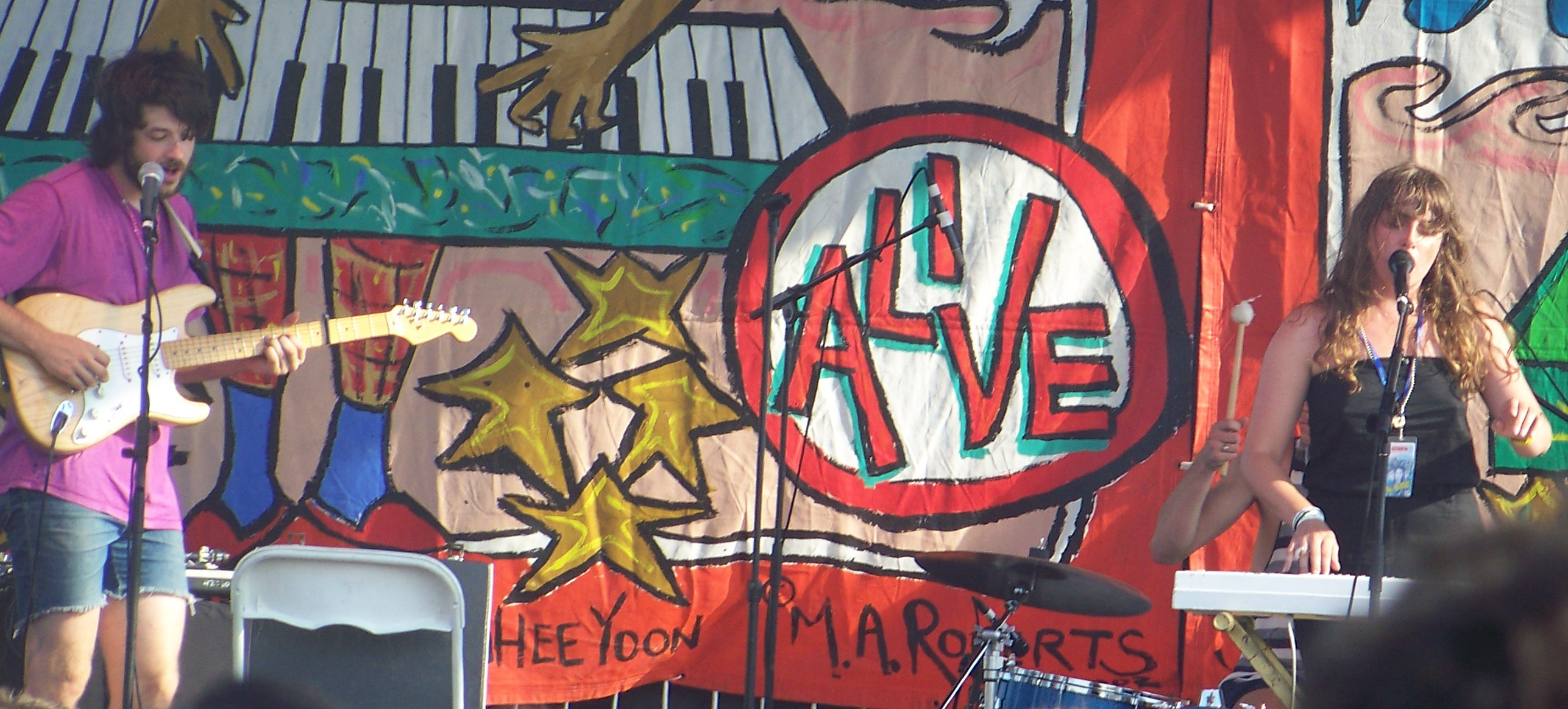 Beach House at the Siren Music Festival, Coney Island NY